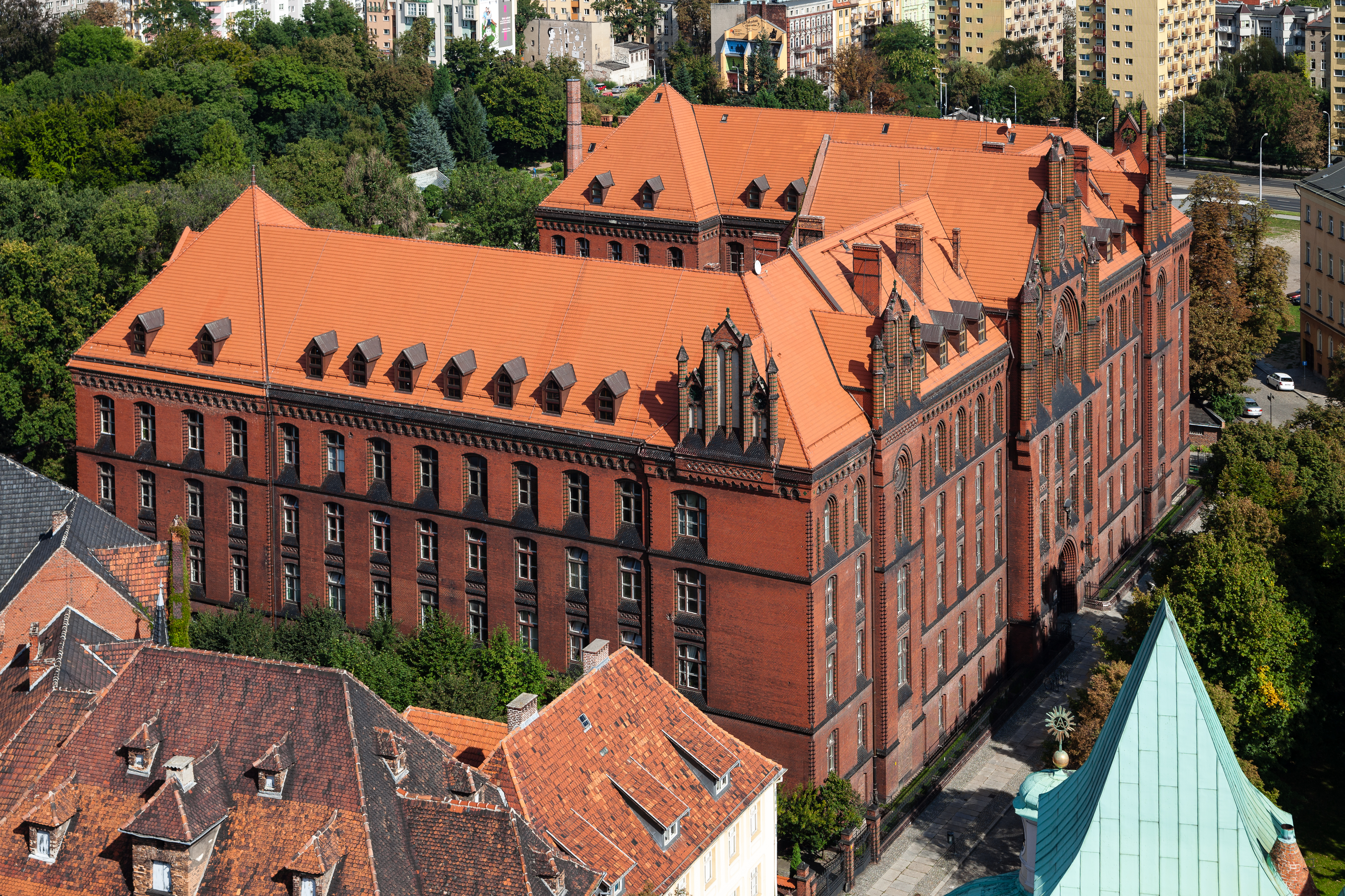 Metropolitan High Theological Seminary in Wrocław, Poland.